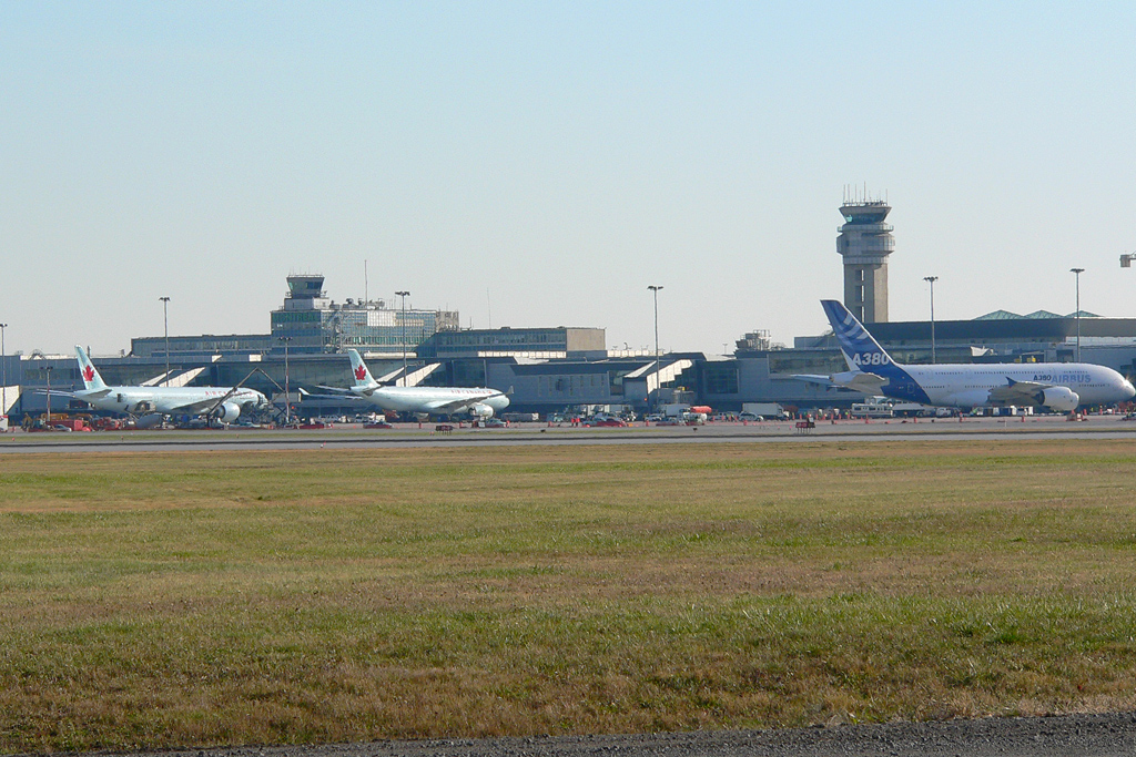 Airbus A380 at at Montréal-Pierre Elliott Trudeau International Airport (YUL) in 2007.